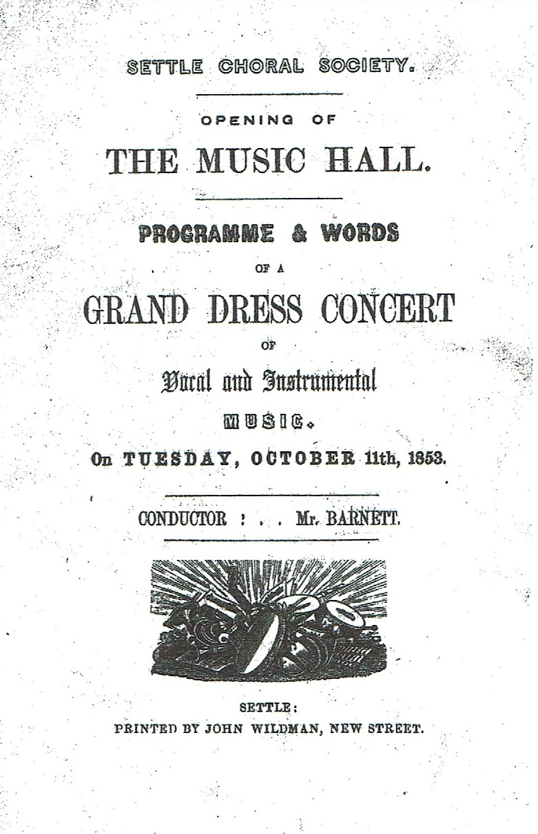 Programme from the opening of The Music Hall, Settle, North Yorkshire (later Settle Victoria Hall), Tuesday 11 October 1853. A Grand Dress Concert given by Settle Choral Society, conducted by Mr Barnett.